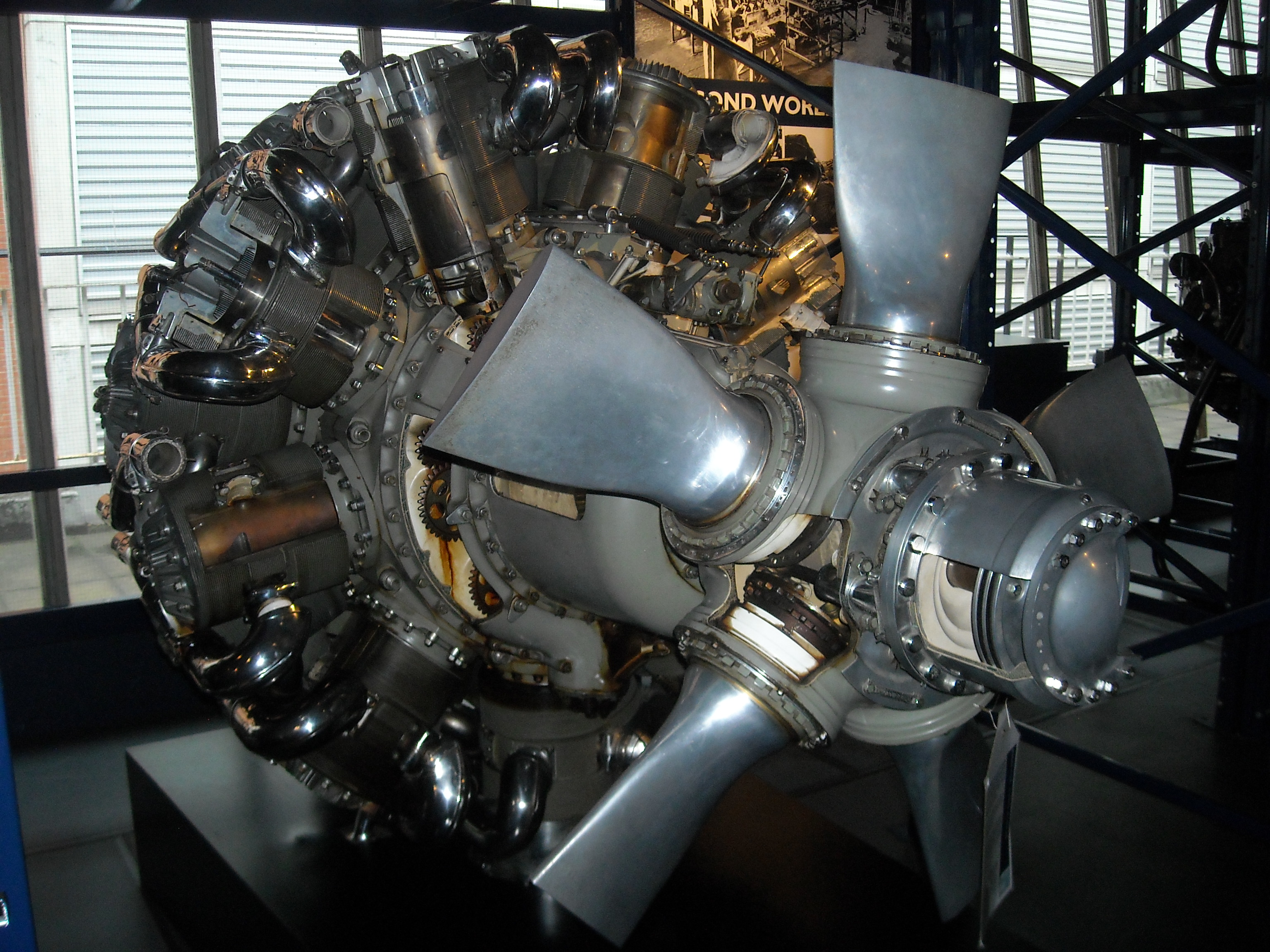 A Bristol Centaurus model shown at the Science Museum in London.